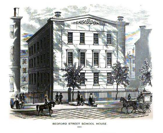 Bedford Street School House. 1845